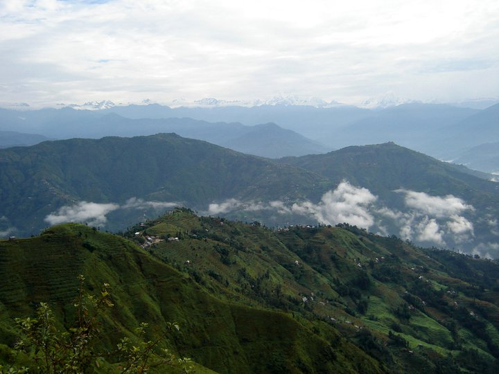 Bhotechaur in rainy season